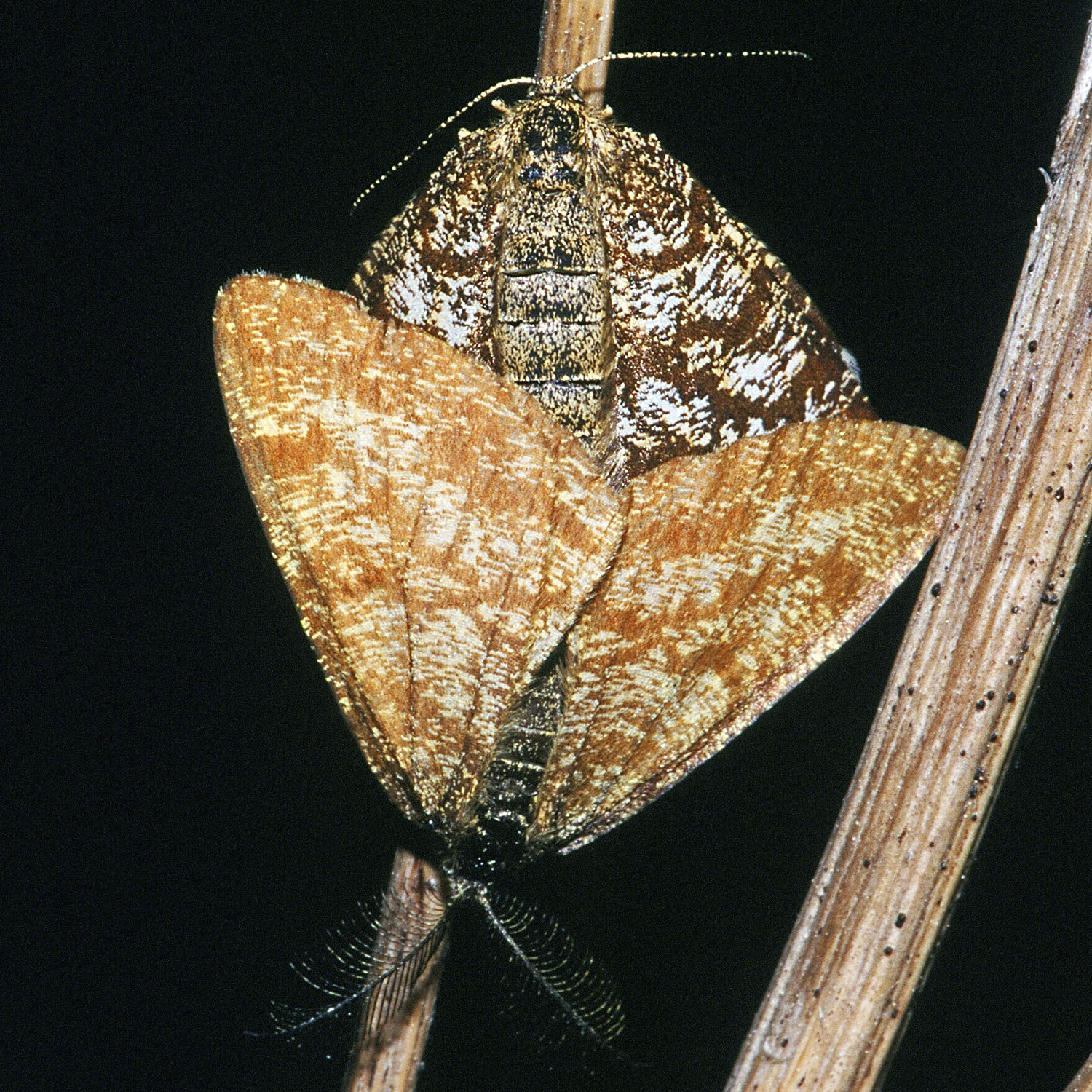 Common Heath, Ematurga atomaria (Linnaeus, 1758), Many thanks to Jürgen Rodeland from for determination!